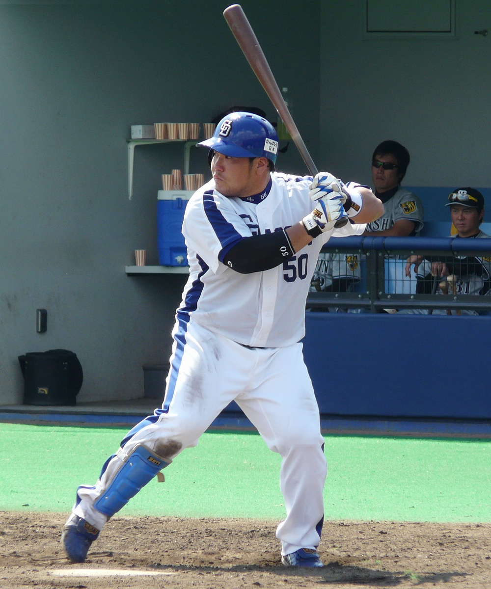 CD-Ryoji-Nakata20110908